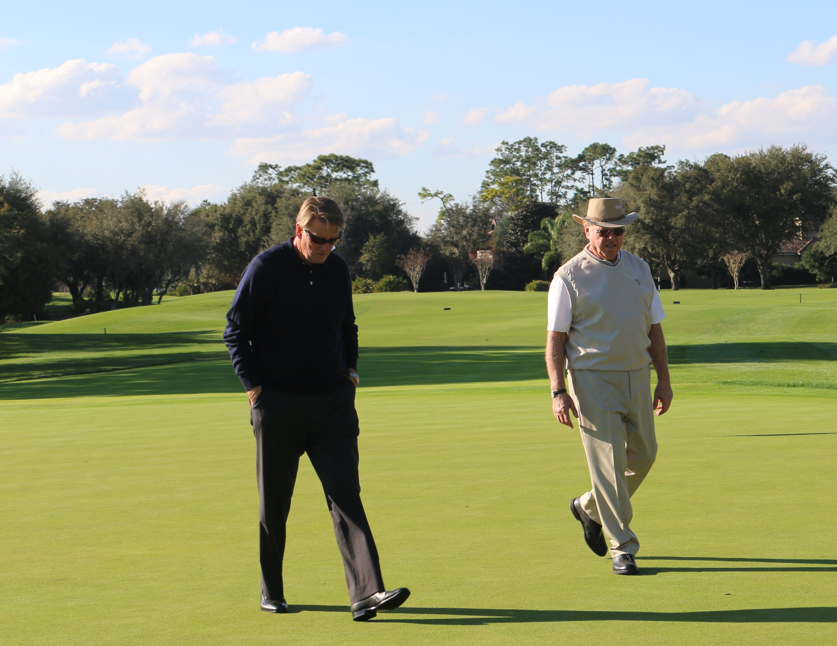 Tom Fazio walking the golf course at Lake Nona Golf & Country Club with Director of Golf Gregor Jamieson.